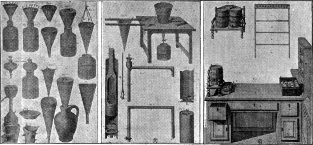 18th-Century French Café Supplies